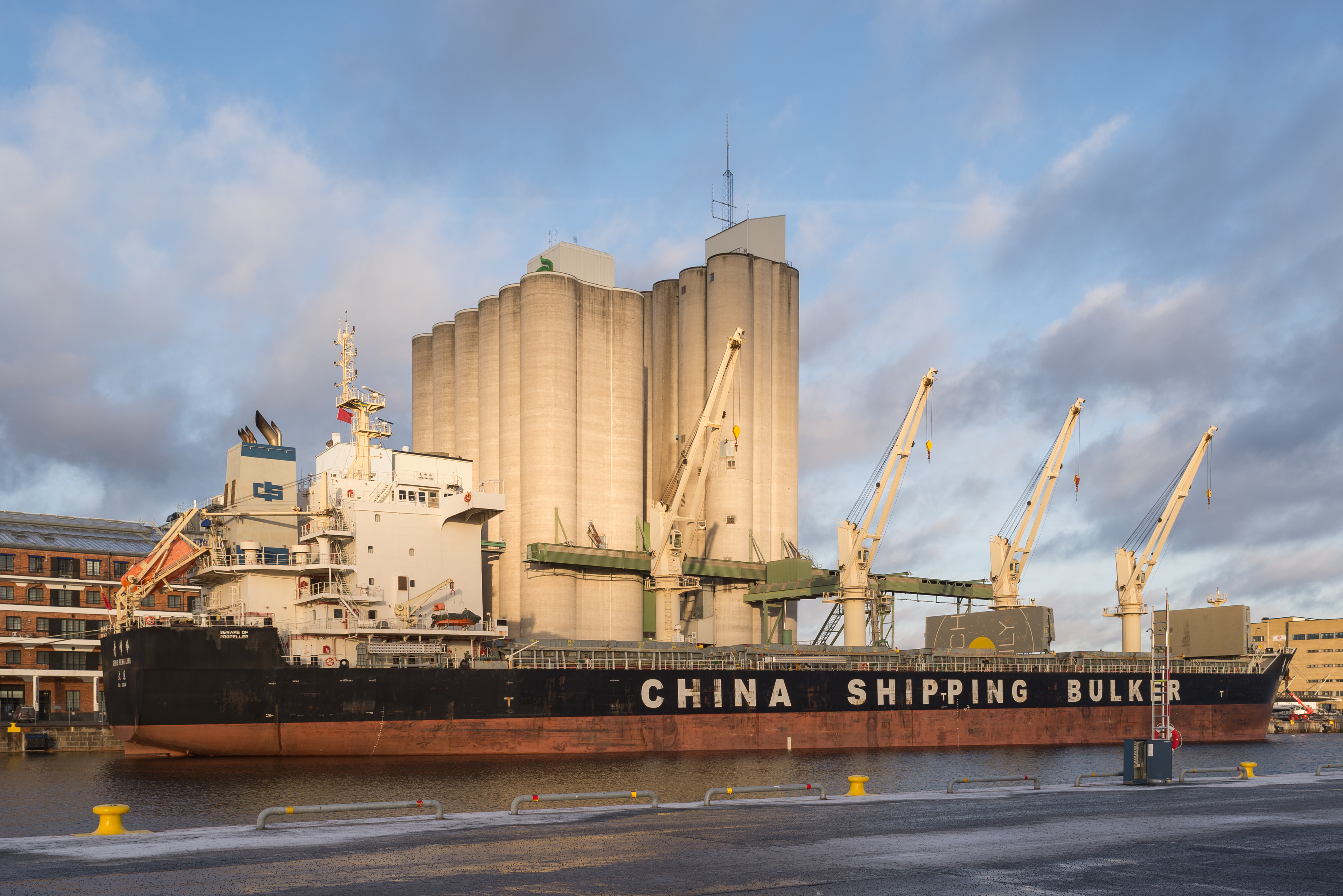 Bulk Carrier Qing Feng Ling loading cereal in Stockholm habour (Värtahamnen).